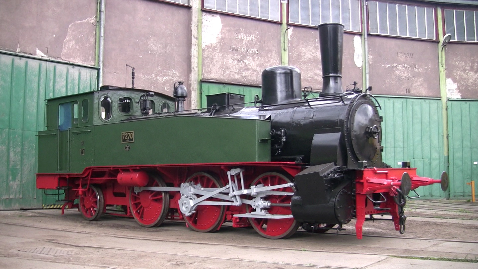 Steam locomotive T 9.1 Cöln 1833, since 1906 Cöln 7270 (Borsig 4431/1893) at Interlok workshop in Piła in Poland, after complete reconstruction. The locomotive belongs to Eisenbahnmuseum Bochum, Germany. It was delivered to the Polish workshop INTERLOK completely dismantled, on 3 trucks with pieces in over 20 boxes. During reconstruction, motive parts have been repared to match operating conditions. Since November 2015 the locomotive is exposed at Bochum STARLIGHT EXPRESS musical hall.